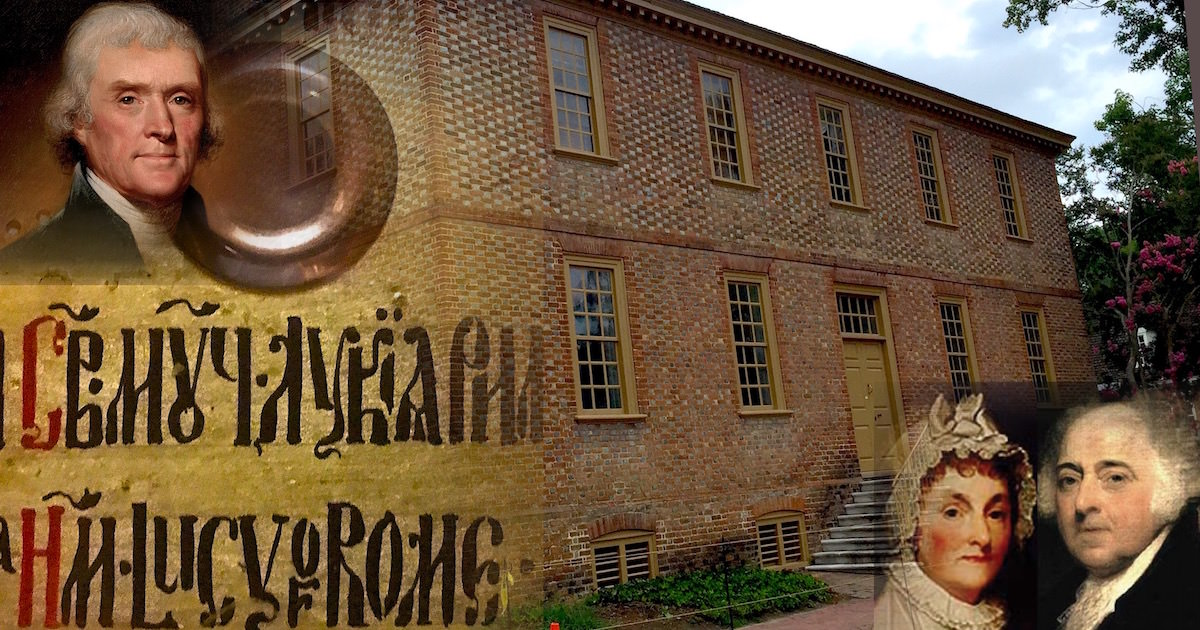 This image depicts features of Lucy Ludwell Paradise's life: an Eastern Orthodox relic of her patron saint MH Lucy of Rome; and her relationships with John & Abigail Adams and Thomas Jefferson.